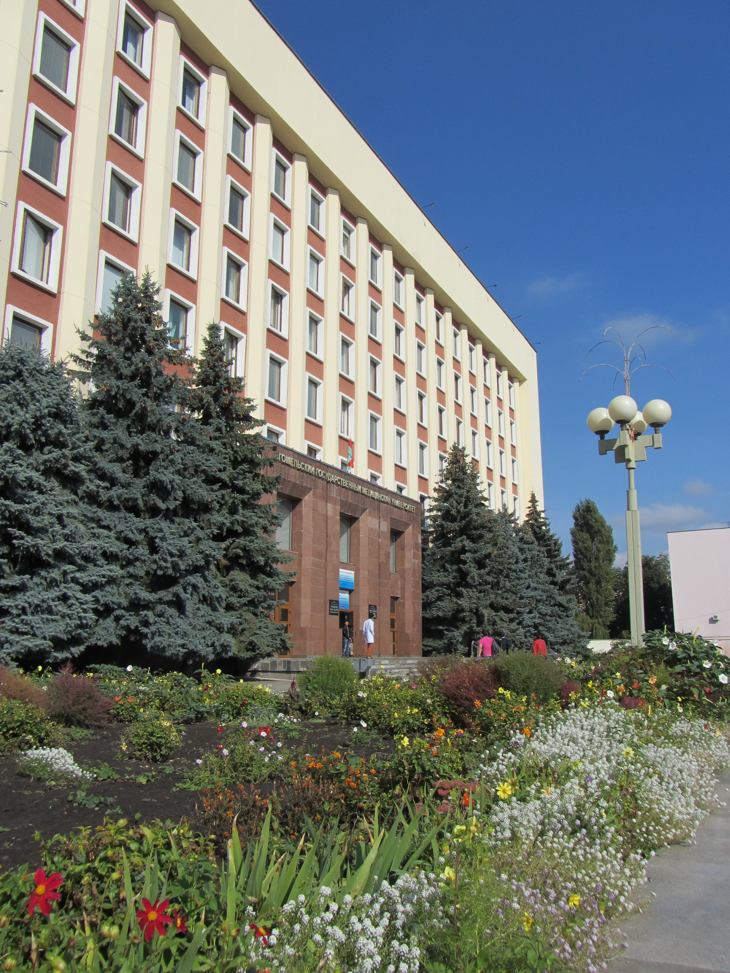 Беларуская (тарашкевіца): Забудова пр. Леніна. г. Гомель This is a photo of Belarusian heritage monument. Reference number: 313Г000043 ( WLM)